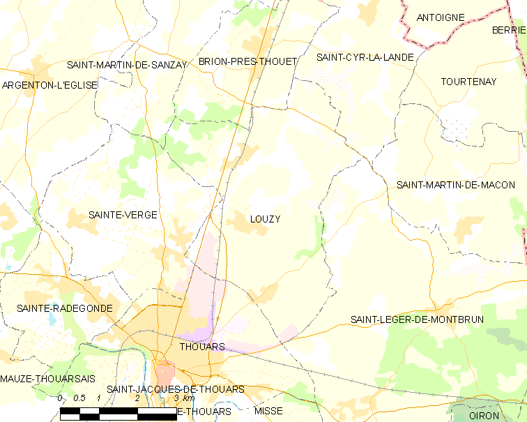 Map of French municipality Louzy